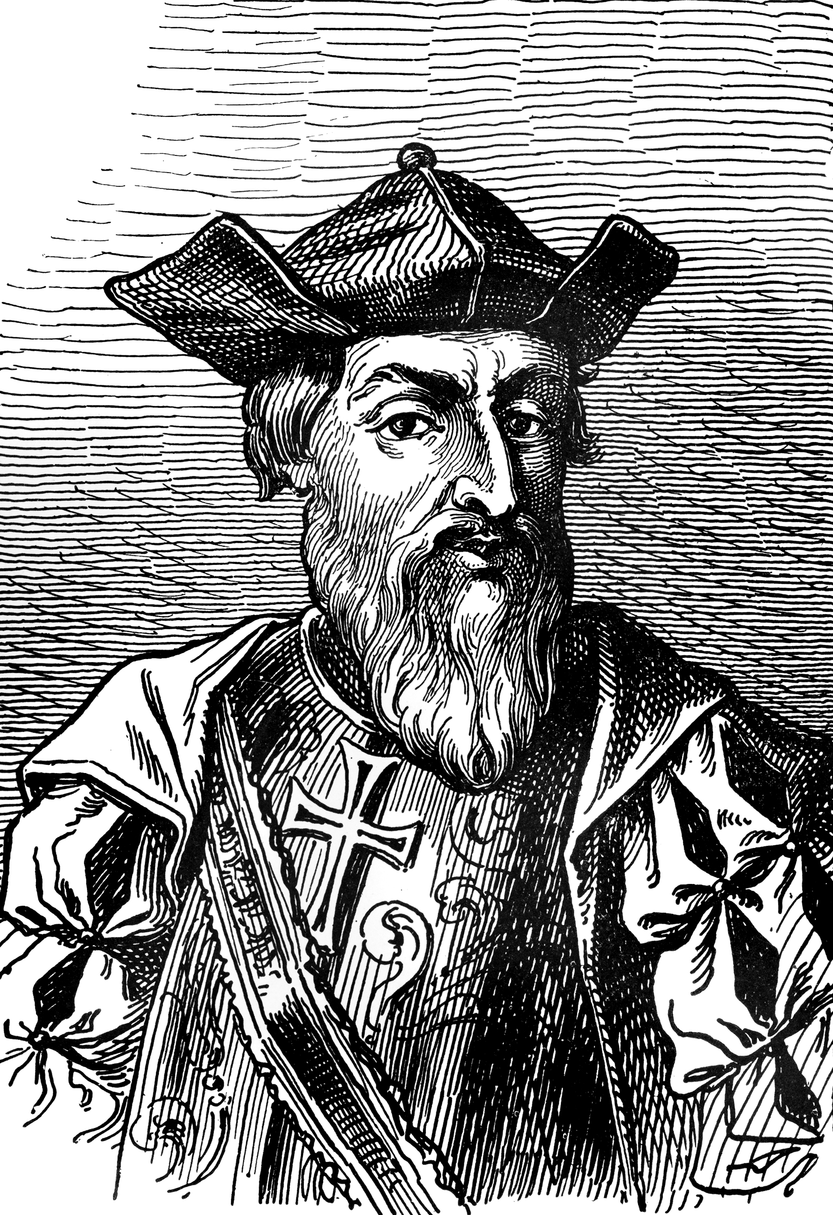 Vasco da Gama, Portuguese navigator.